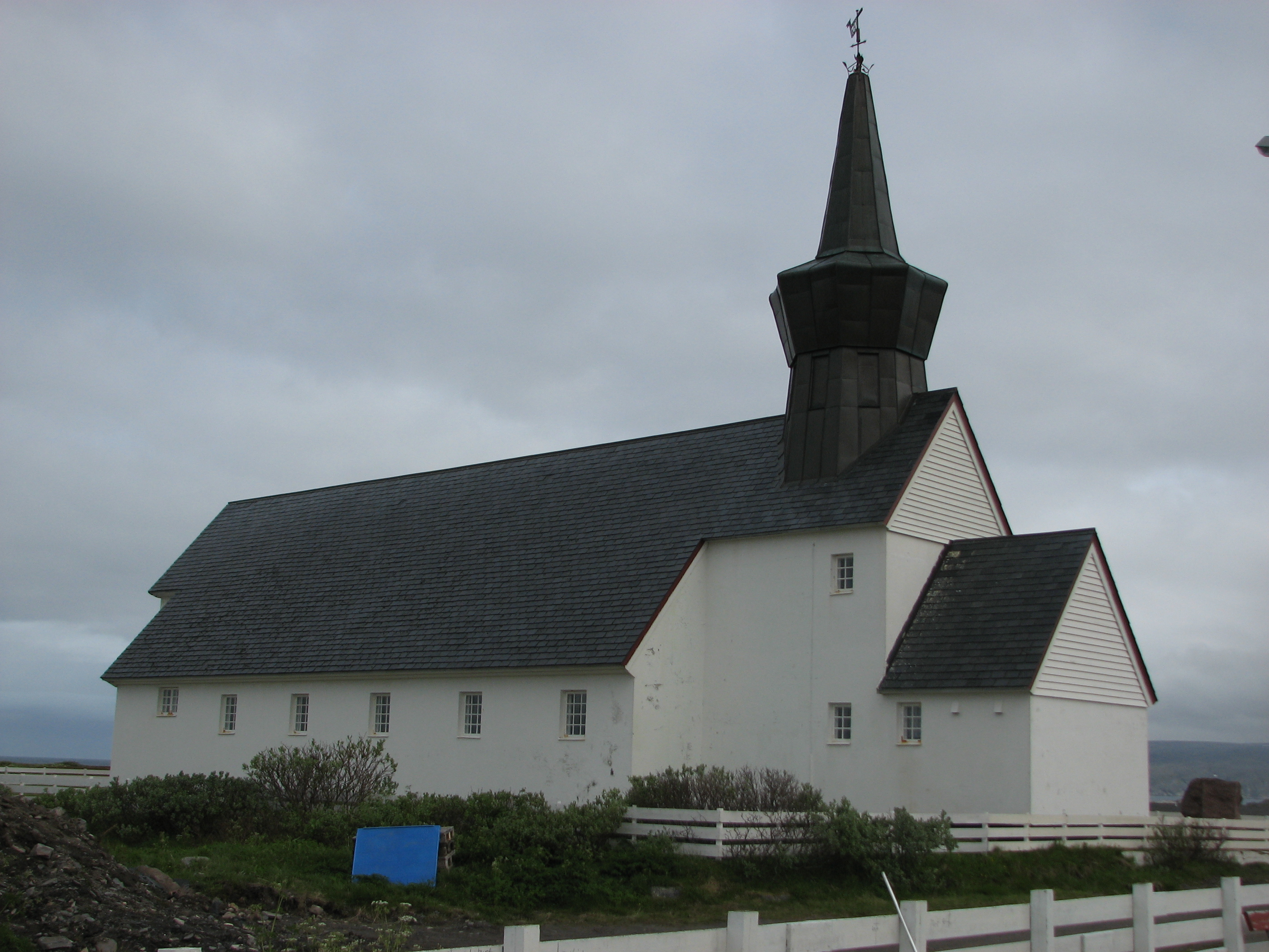 Gamvik church, Gamvik, Norway View from NW